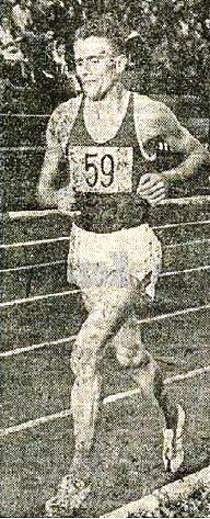 Franc Červan (1936-1991), Slovene athlete